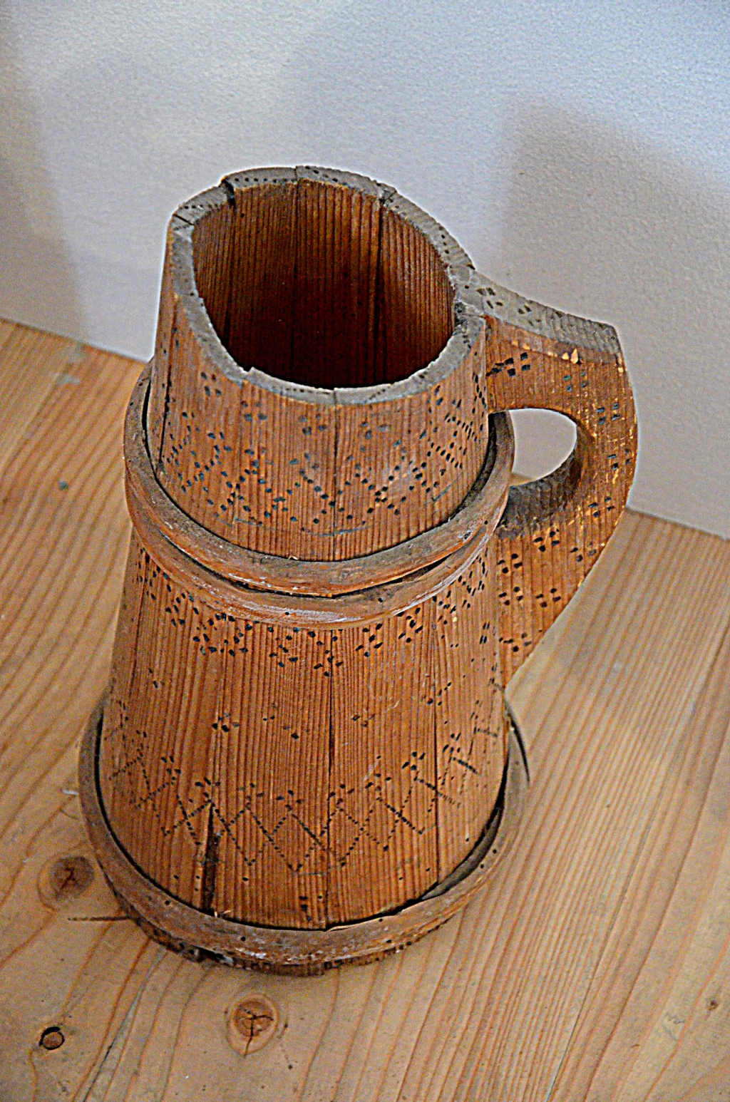 Wooden Jug (stave tankard) used for the traditional Śmigus-dyngus (wet monday) easter sprinkling.